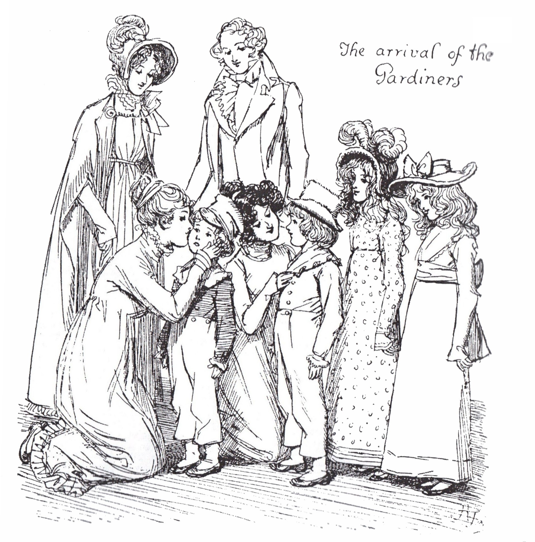 Illustration for Pride and Prejudice, ch. 42:The arrival of the Gardiners.